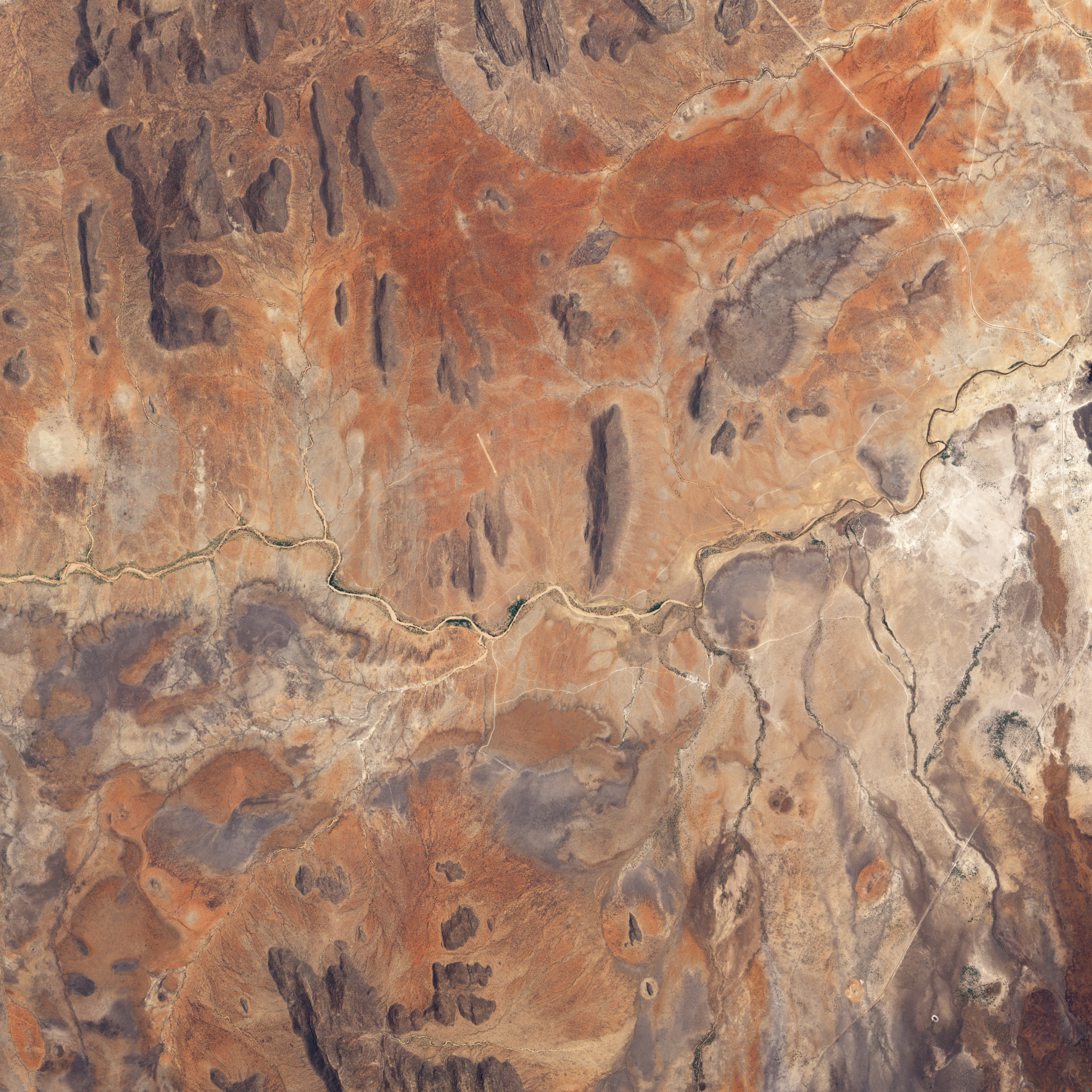 The dry river bed is exposed in this true-colour image. The arid landscape is tan and orange with darker shades of brown where rock is exposed. The tiny dark green and black dots scattered across the region are trees. The densest clusters of trees are, unsurprisingly, near the rivers, particularly the Ewaso Nyiro. The river itself is a pale tan ribbon of sand. On the right side of the image, a tiny dark line of water trickles through the river. The water appears to be flowing into the Ewaso Nyiro from the Keromet River.